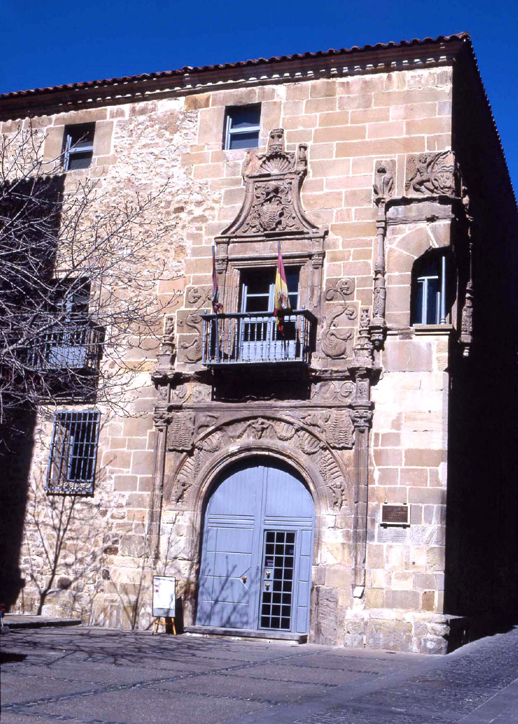 Archivo Histórico Provincial de Soria